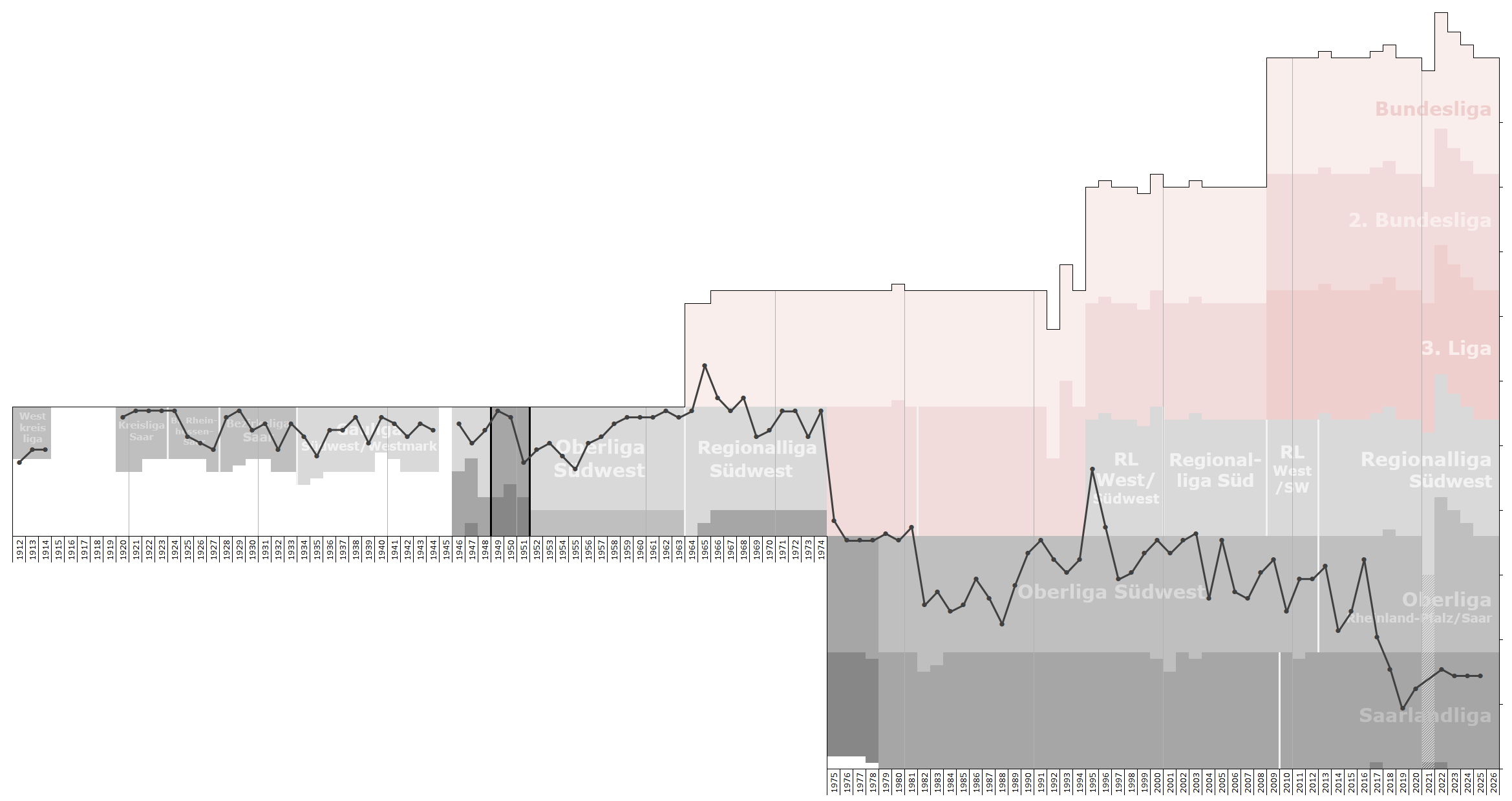 Chart of end-season table positions of Borussia Neunkirchen in the football league system of Germany. Data source: RSSSF, wikipedia, f-archiv.de, fussball.de